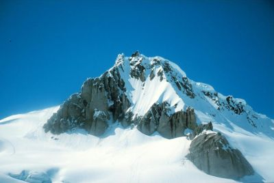 Photo taken on a traverse of the Pemberton Icecap, showing the mountain's southwest slopes. The easiest route to the summit follows the skyline ridge (with the cornices)